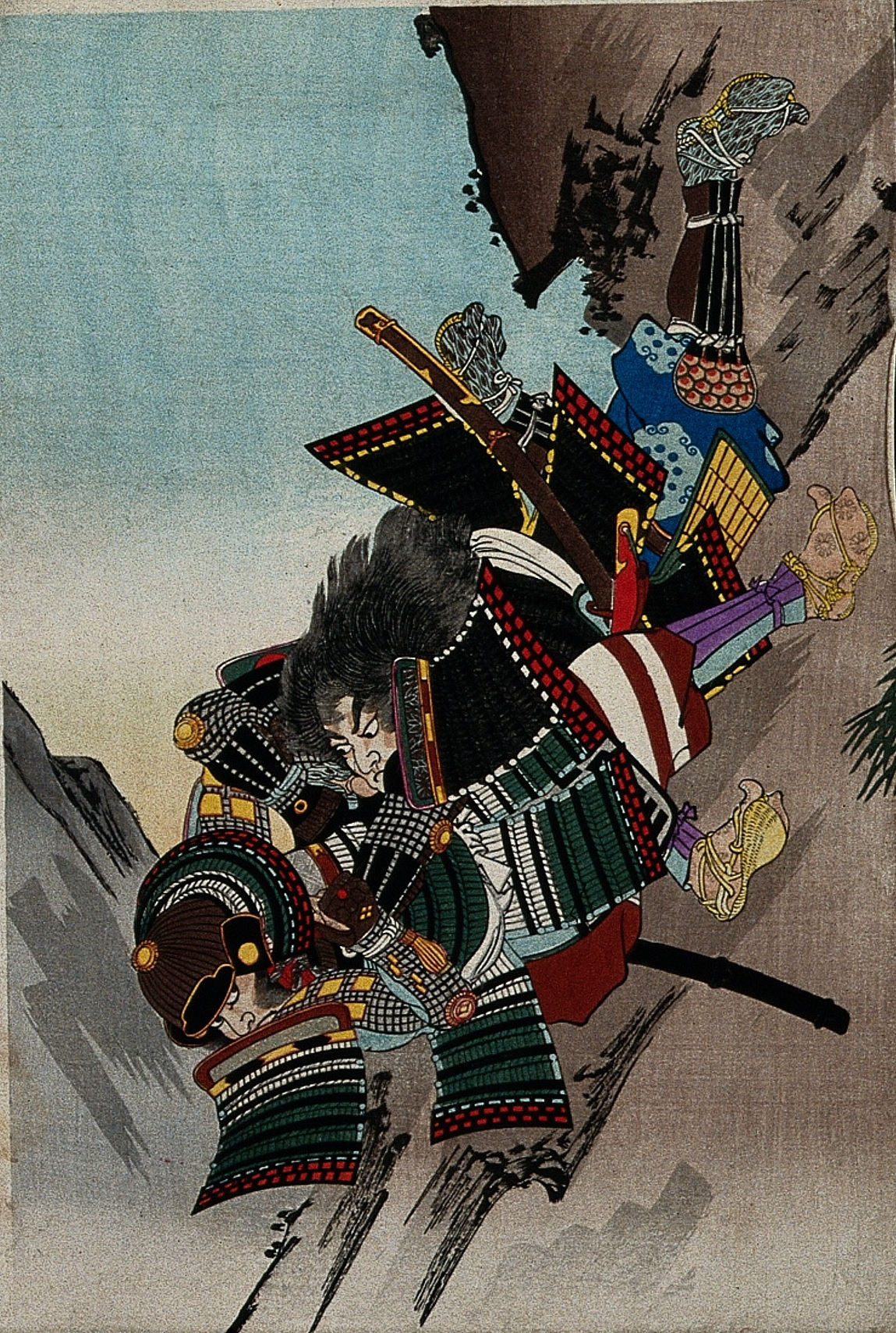 Battle at Shizugatake, Katō Toranosuke and Yamaji Shōgen (Shizugatake kassen: Kato Toranosuke Yamaji Shogen), woodblock print